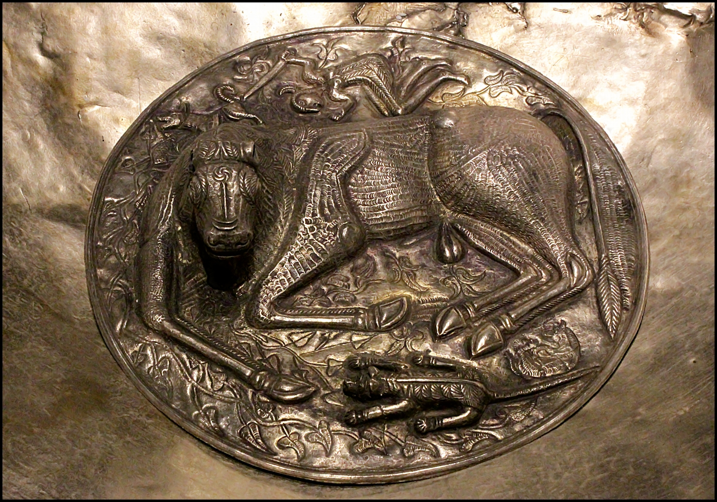 Gundestrup cauldron, circular base plate. Copy by galvanoplasty, museum of Bibracte, exhibition at the Cité des Sciences, Paris ("Les Gaulois, une expo renversante").